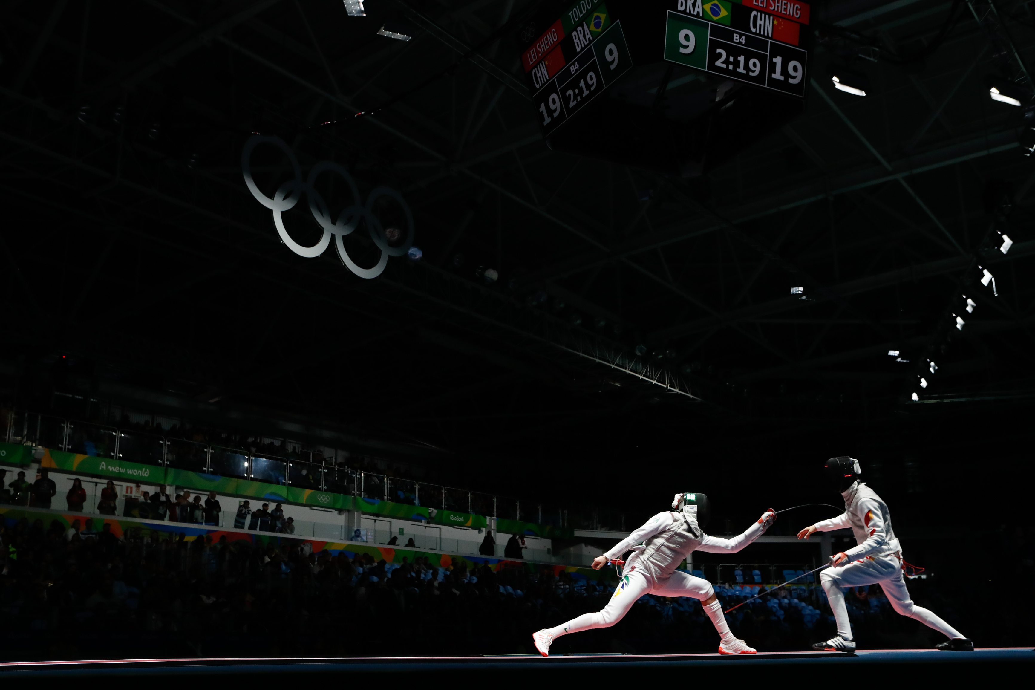 Rio de Janeiro - Equipe brasileira de esgrima perde no florete pata italianos e chineses e termina em 7º lugar nos Jogos Olímpicos Rio 2016. (Fernando Frazão/Agência Brasil)